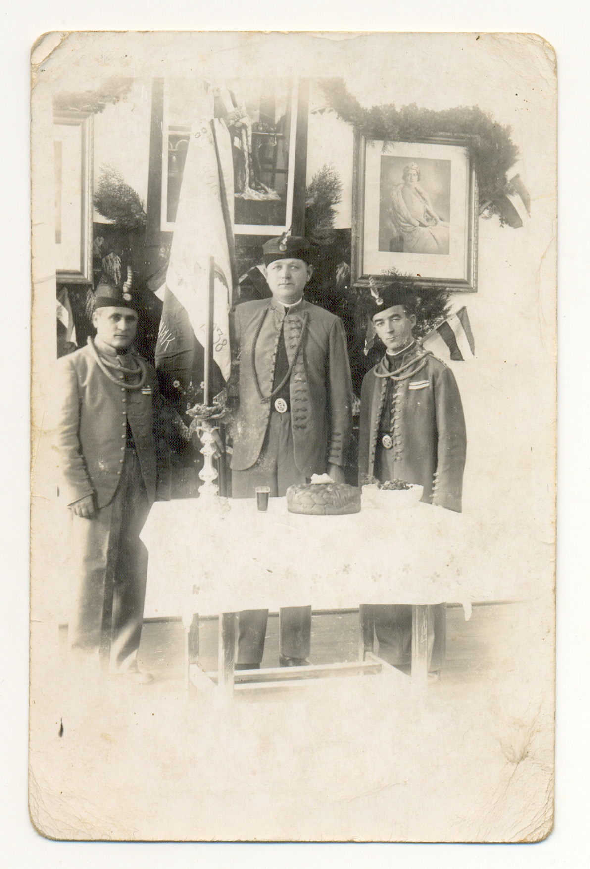 Трстенички соколи на Видовдан